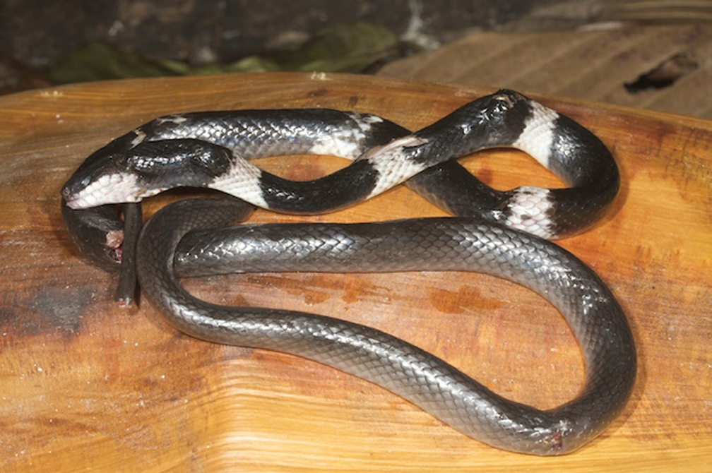 Lycodon subcinctus. Damaged specimen (USNM 573682, SVL 544 mm, parts of tail lost) from Letefoho, Manufahi District.